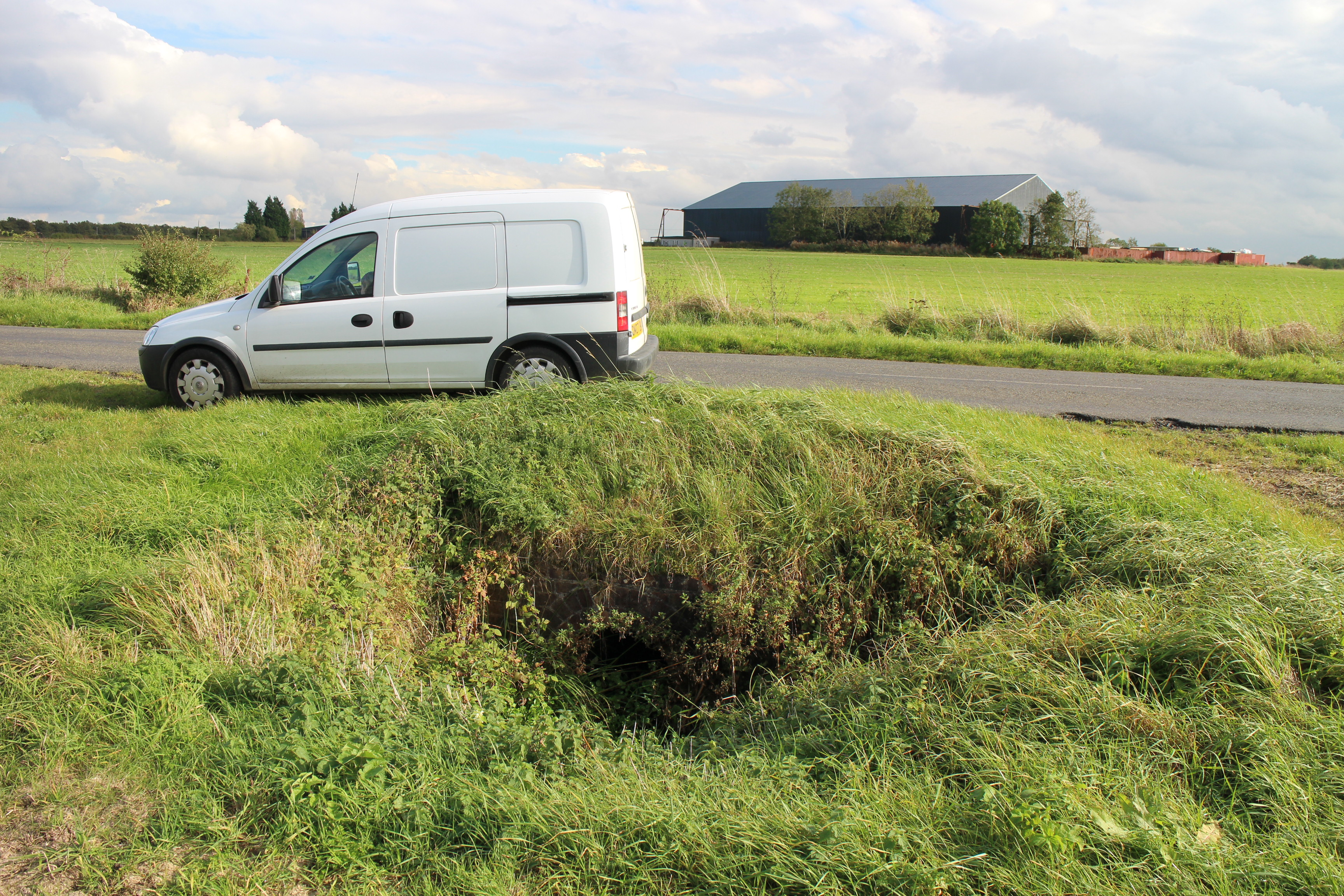 'The East Anglian Stour rises on the stark uplands of Wratting Common beside the West Wickham to Carlton road ¼ mile before this road crosses the Withersfield to West Wratting road.'